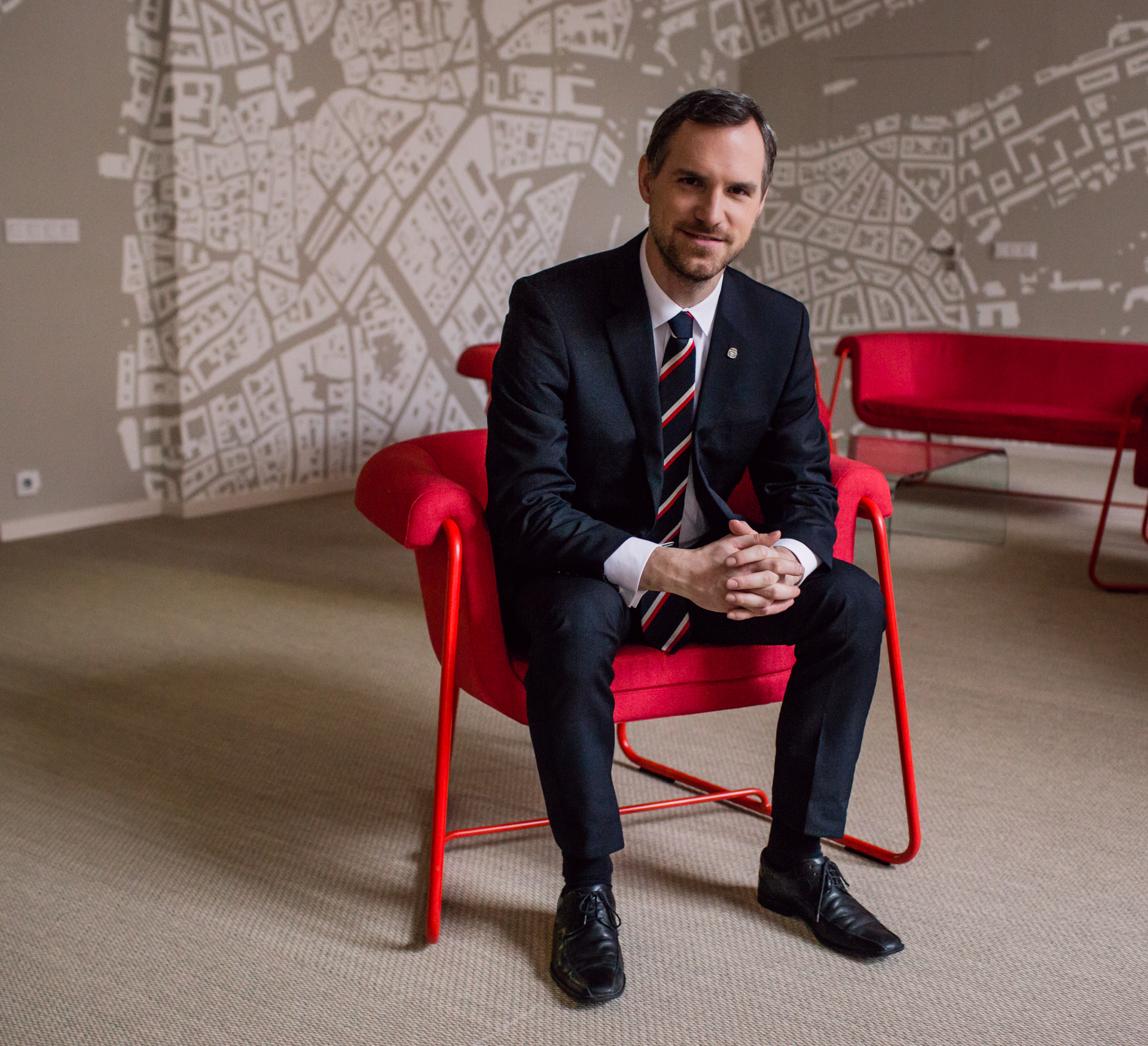 Zdeněk Hřib, Mayor of Prague Personality rights warningAlthough this work is freely licensed or in the public domain, the person(s) shown may have rights that legally restrict certain re-uses unless those depicted consent to such uses. In these cases, a model release or other evidence of consent could protect you from infringement claims.